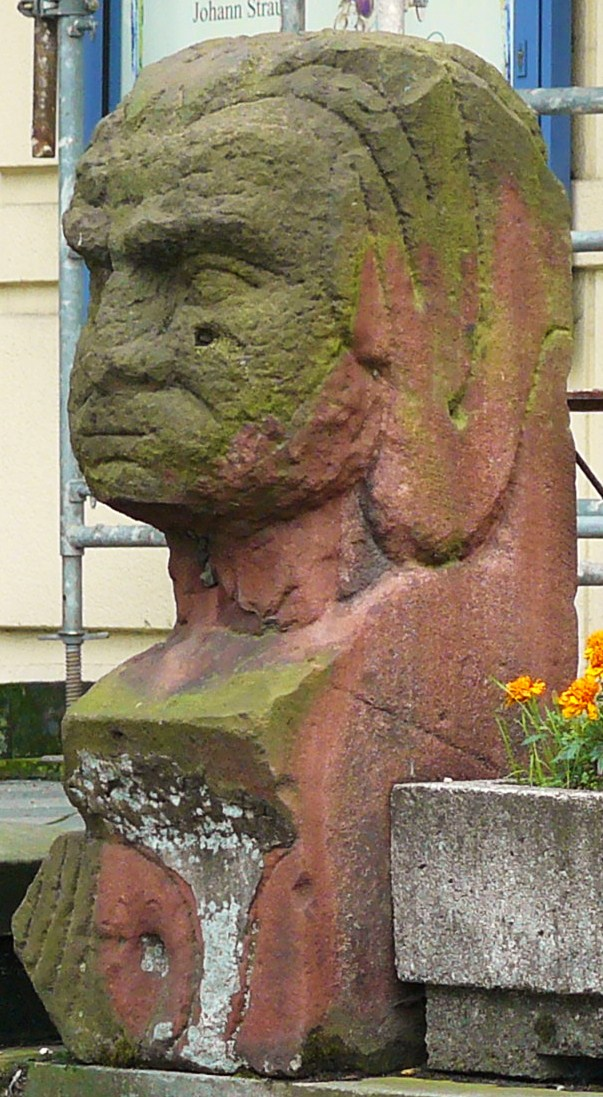 Soldier House in Poznan - detail.